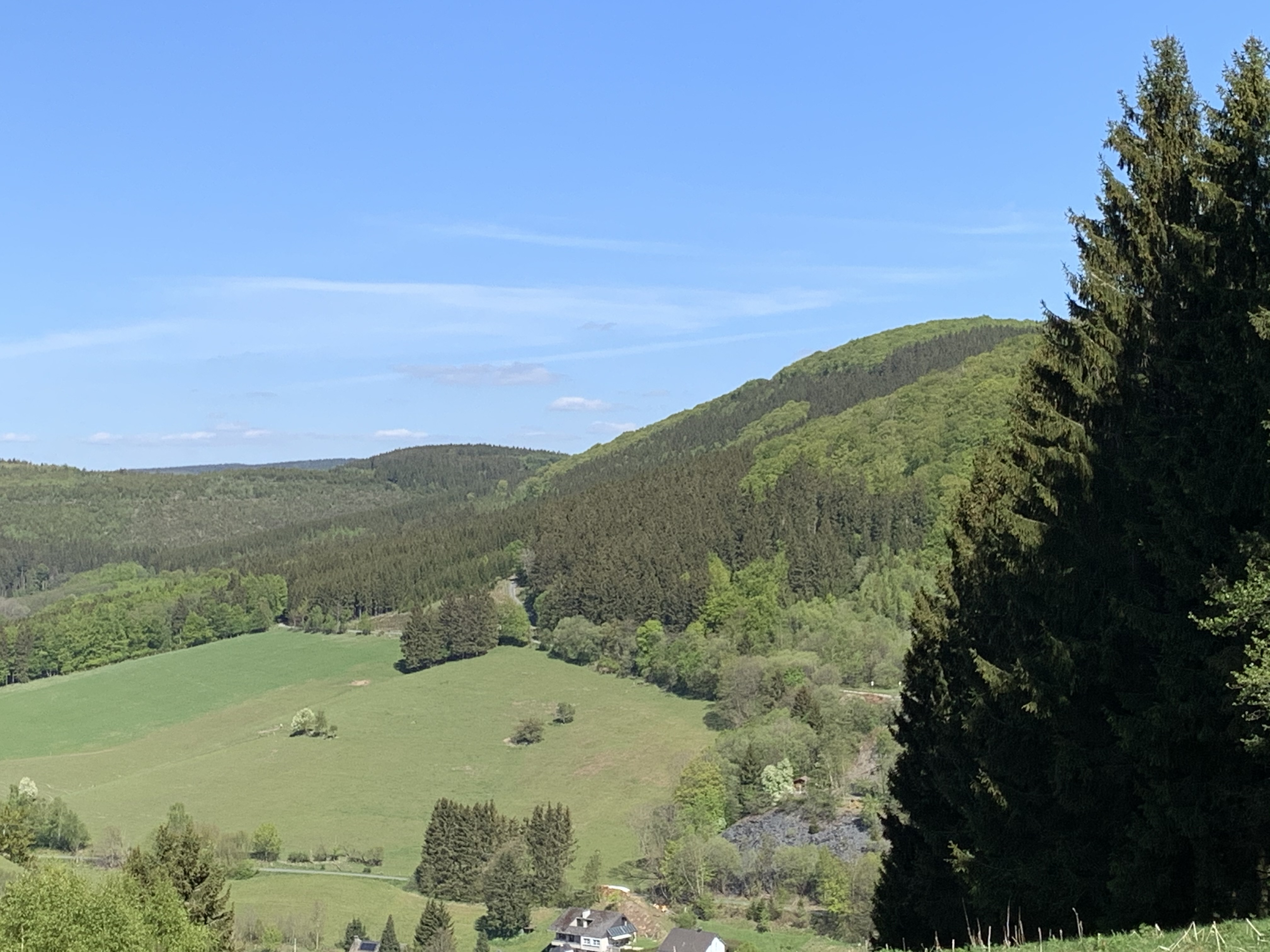 Almost 800 Meters high, this Mountain called Nordhelle is close to Silbach